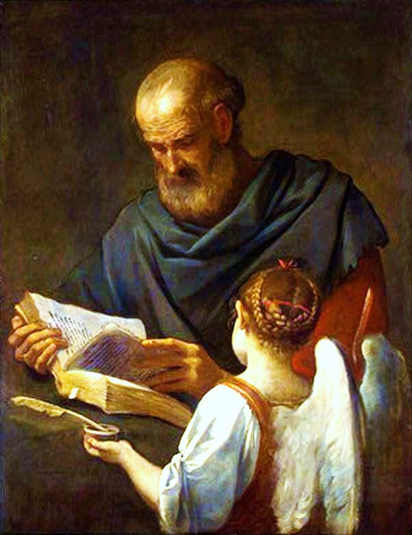 St Matthew and the angel